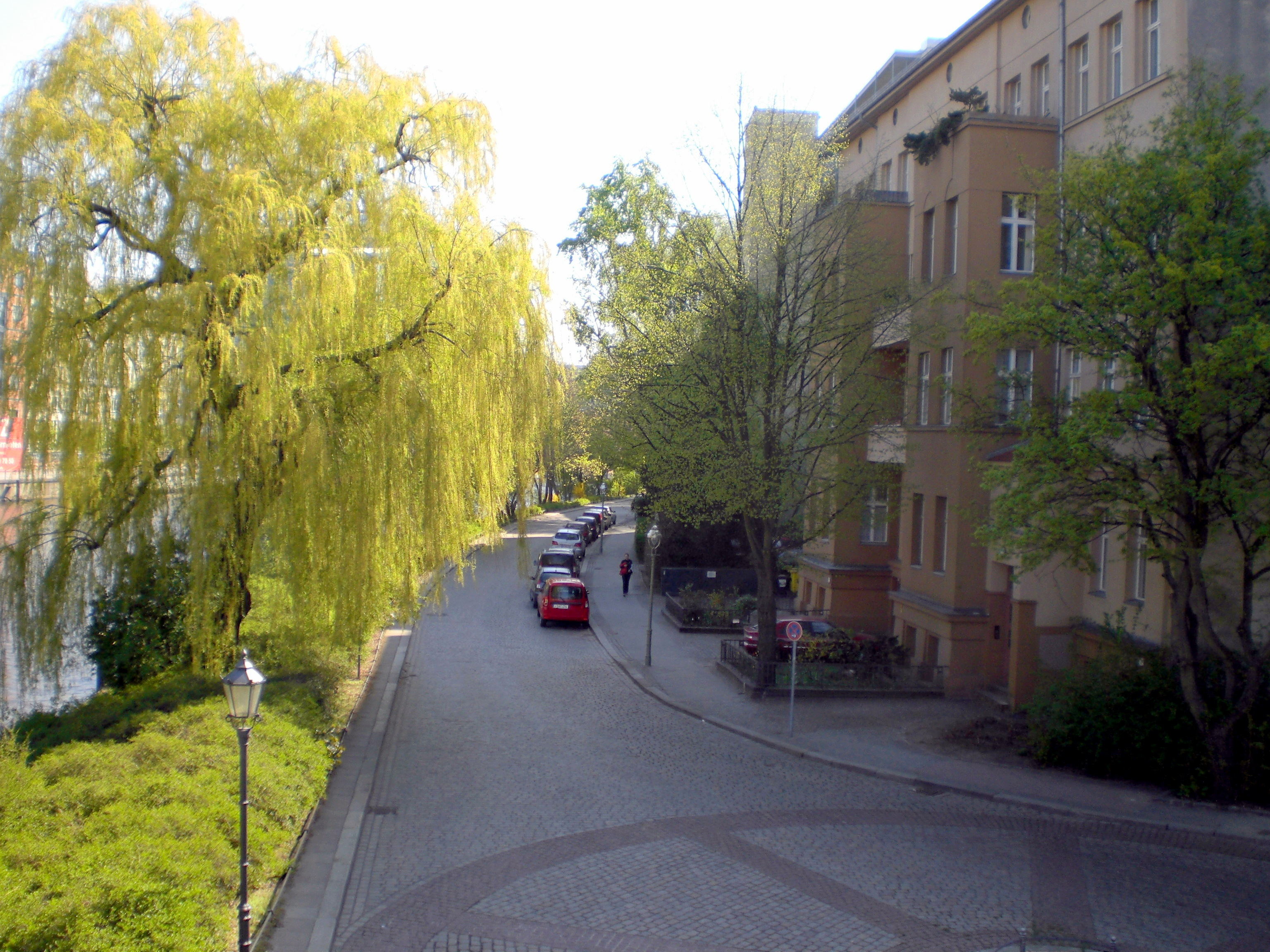 Berlin-Hansaviertel Holsteiner Ufer